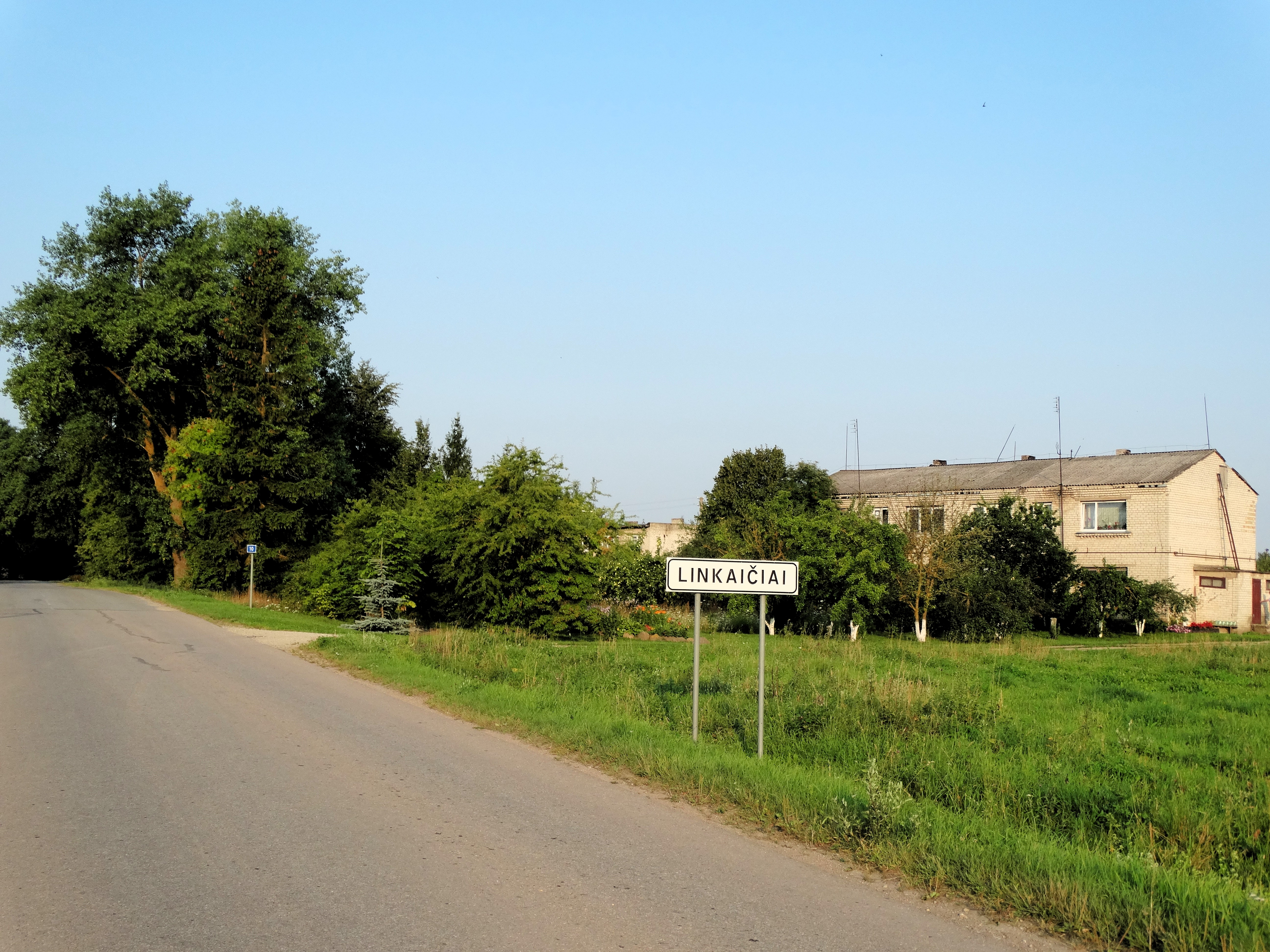 Linkaičiai, Joniškis District, Lithuania